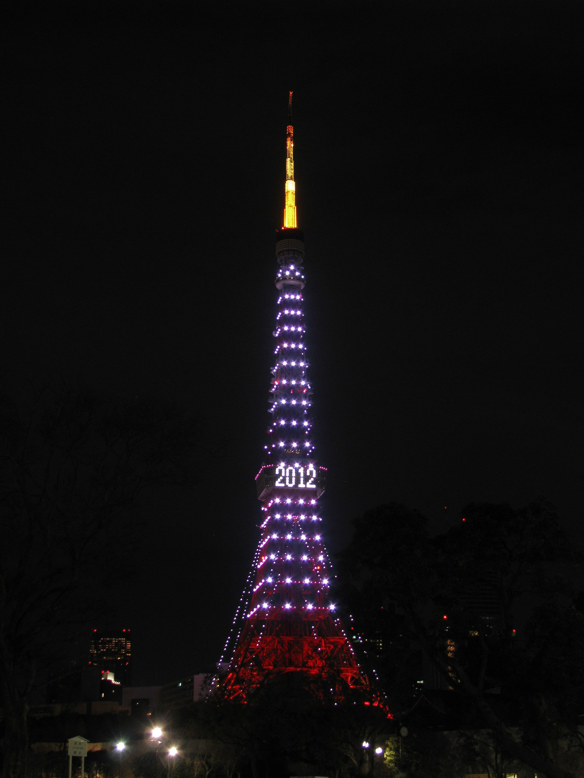 The Tokyo Tower is a communications tower. This location is from Shiba Park in Minato, Tokyo, Japan.